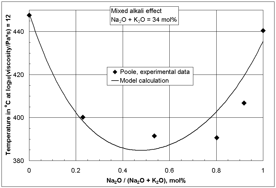 The mixed-alkali effect: If a glass contains more than one alkali oxide, some properties show non-additive behavior. The image shows, that the viscosity of a glass is significantly decreased. (Image adapted from: A. Fluegel: "Glass Viscosity Calculation Based on a Global Statistical Modeling Approach"; Glass Technol.: Europ. J. Glass Sci. Technol. A, vol. 48, 2007, no. 1, p 13-30.)